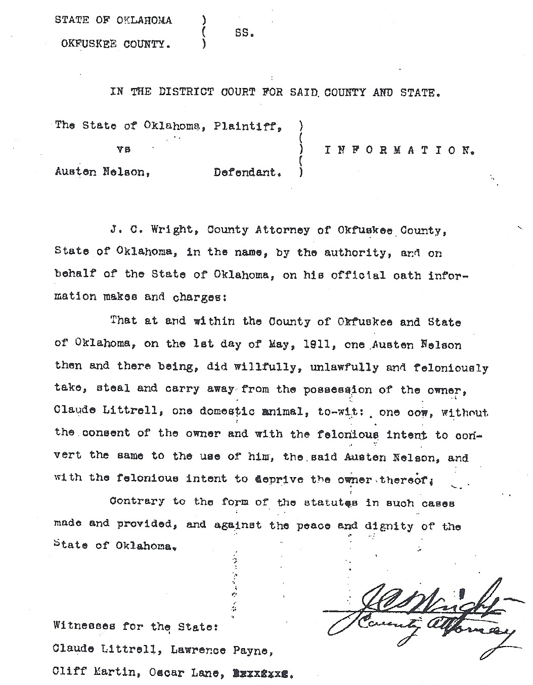 "The State of Oklahoma, Plaintiff, vs Austen [sic] Nelson, Defendant". Austin Nelson was the husband and father of Laura and L. D. Nelson, who were lynched near Okemah, Okfuskee County, Oklahoma on 25 May 1911. See Lynching of Laura and L. D. Nelson